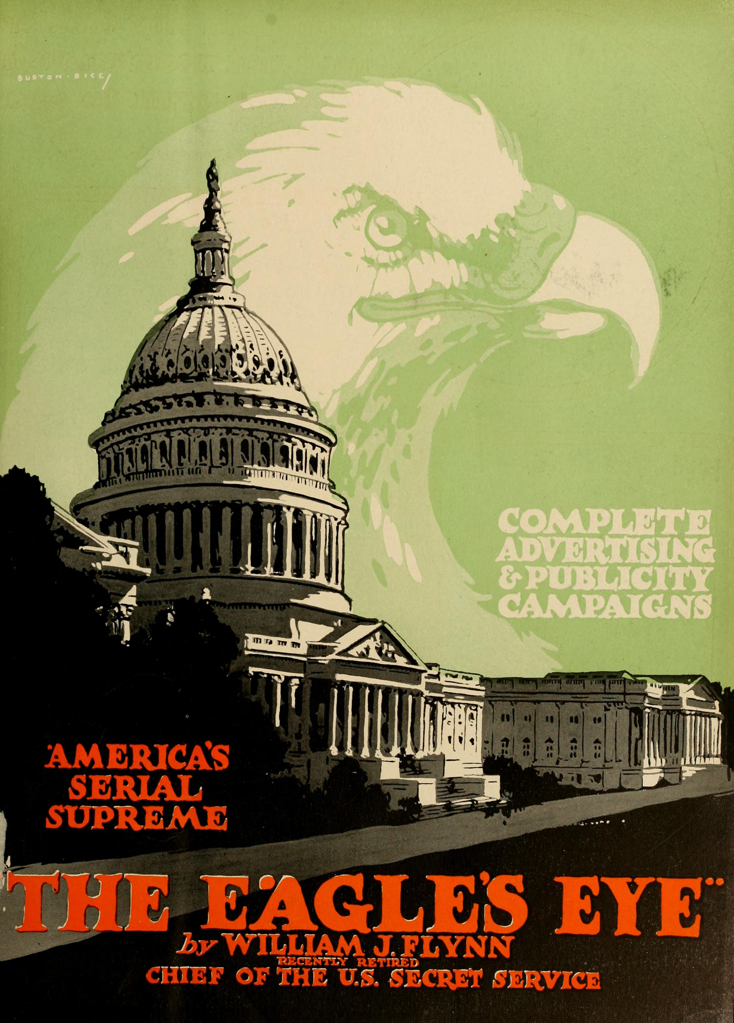 Advertisement for an American serial The Eagle's Eye (1918) in Moving Picture World.